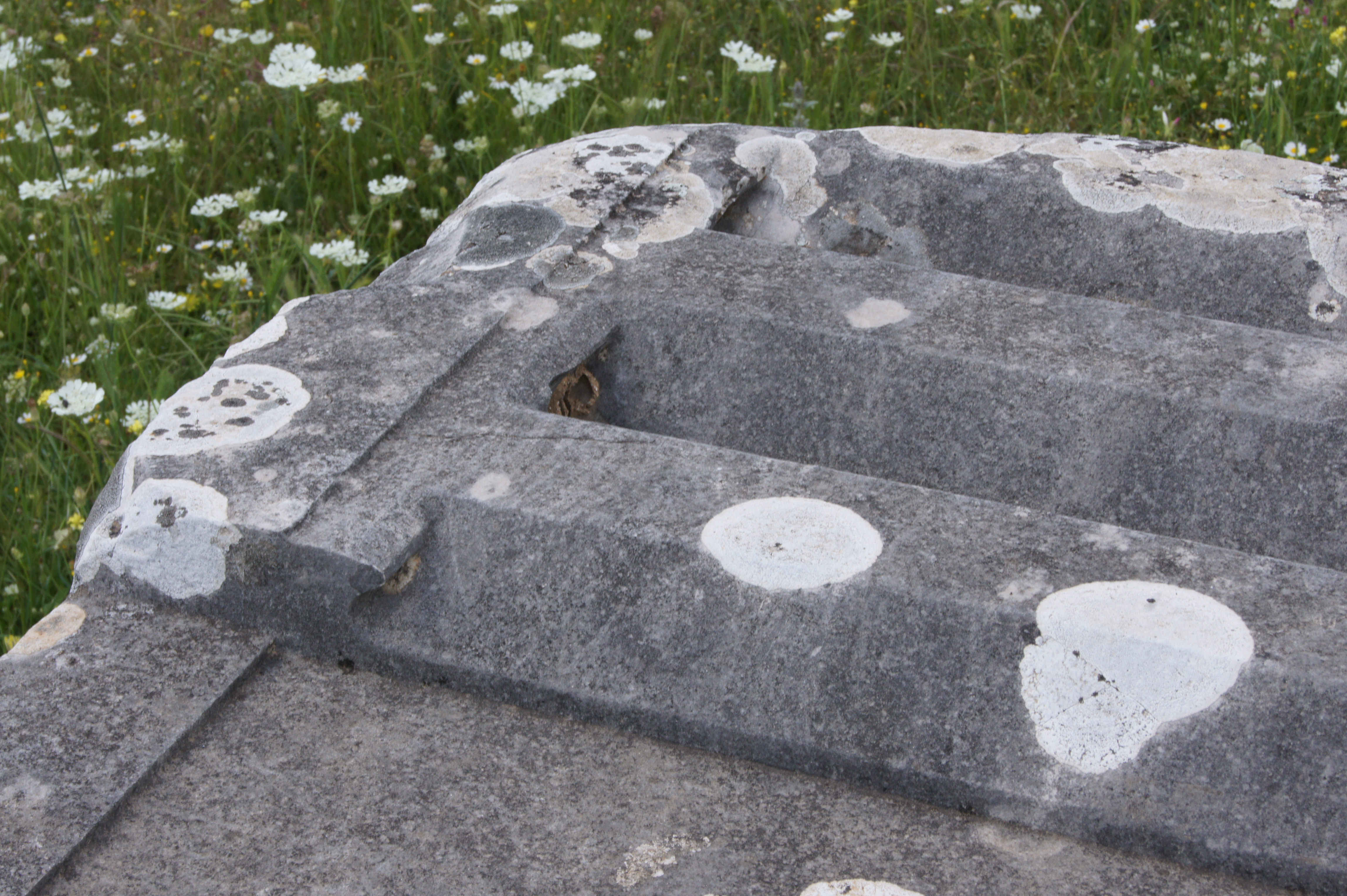 Stratos Temple 2